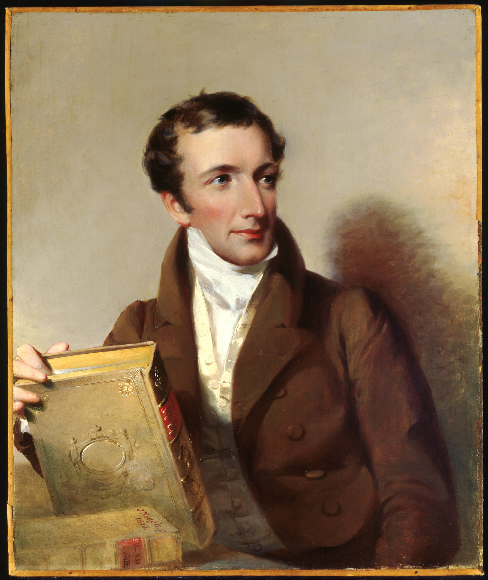 John Neagle, American, 1796–1865 John Kintzing Kane, 1828 Oil on canvas 77 x 64 cm. (30 5/16 x 25 3/16 in.) frame: 96.3 × 86 × 8 cm (37 15/16 × 33 7/8 × 3 1/8 in.) Museum purchase y1945-207